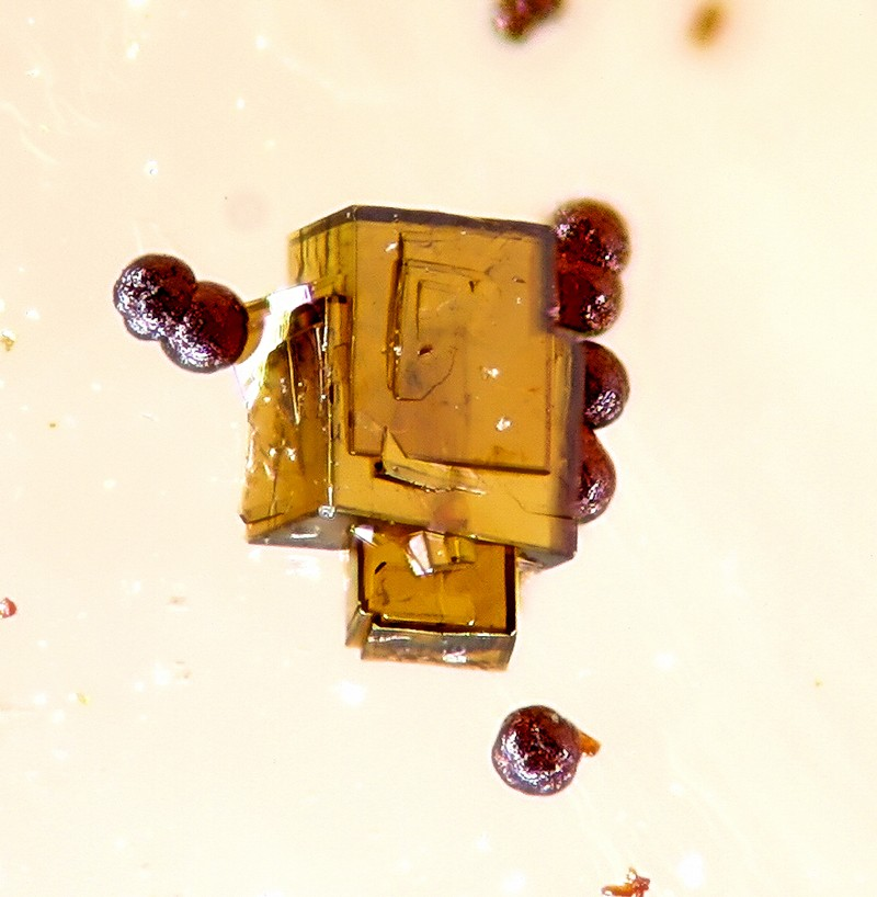 Segnitite, Lepidocrocite Locality: Alto das Quelhas do Gestoso Mines, Gestoso, Manhouce, São Pedro do Sul, Viseu District, Portugal Picture width 1 mm. Collection and photograph Christian Rewitzer Yellowbrown Segnitite (analysed !) with redbrown Lepidocrocite.